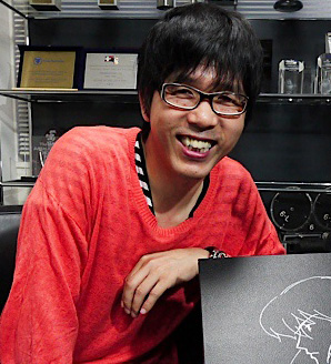 Filming for Culture Japan at the headquarters of Production I.G with the President and CEO Mitsuhisa Ishikawa - the man responsible for bringing us historical titles like Patlabor, Ghost in the Shell and many other more that have influenced the lives of millions worldwide.